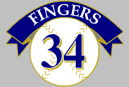 Source: I, Pharos04 made this picture on MSPaint to serve as a retired number on the Milwaukee Brewers page.